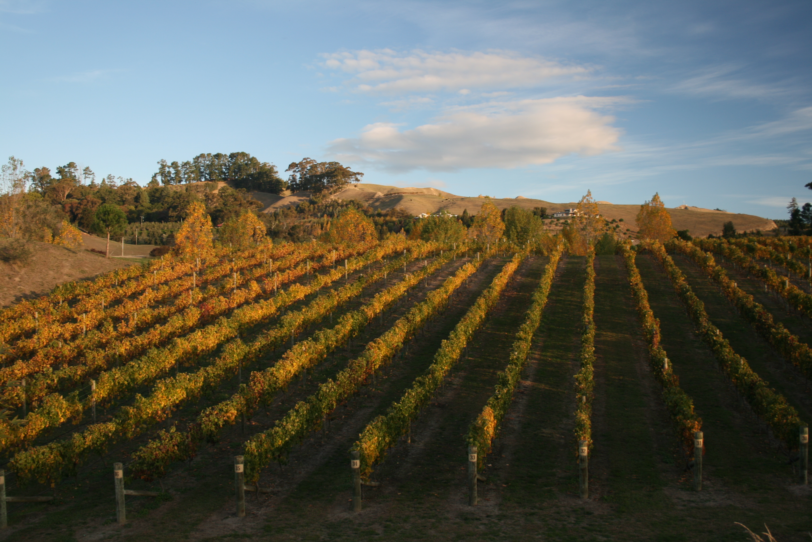 A vineyard in the Hawke's Bay region of New Zealand, taken in autumn.